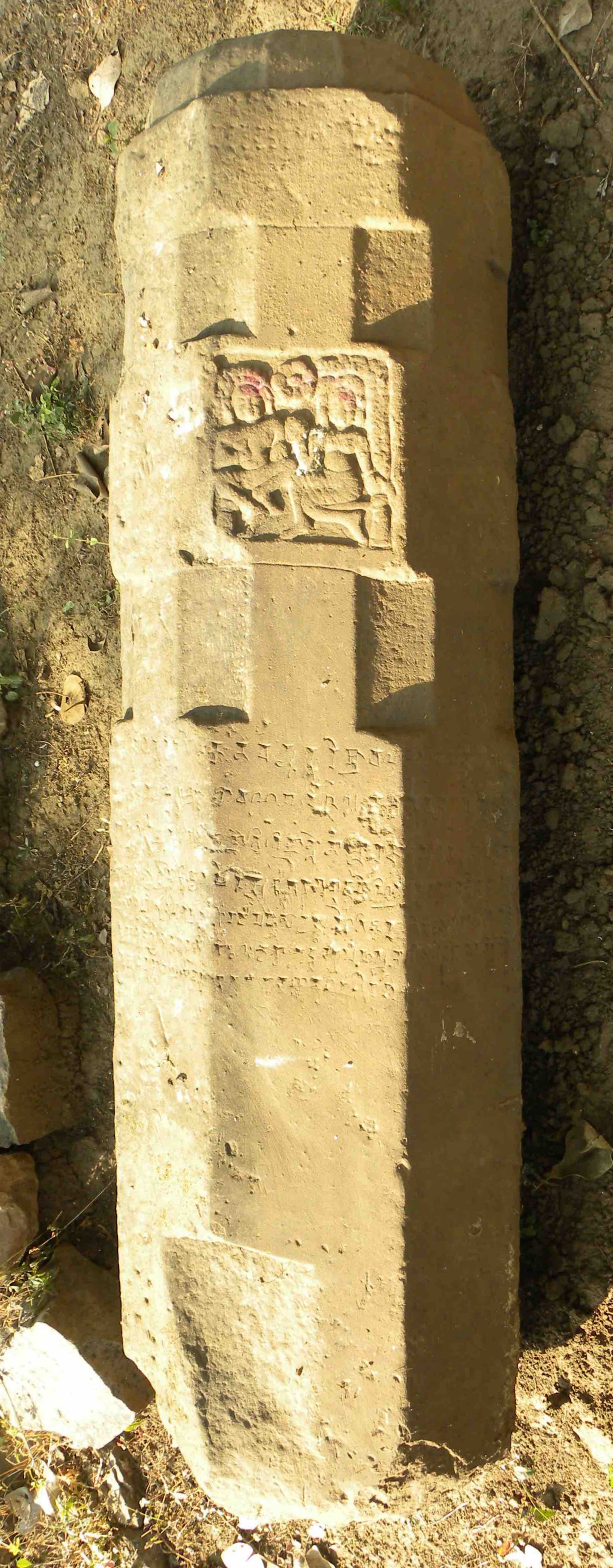 Eran pillar of Goparaja (detail)